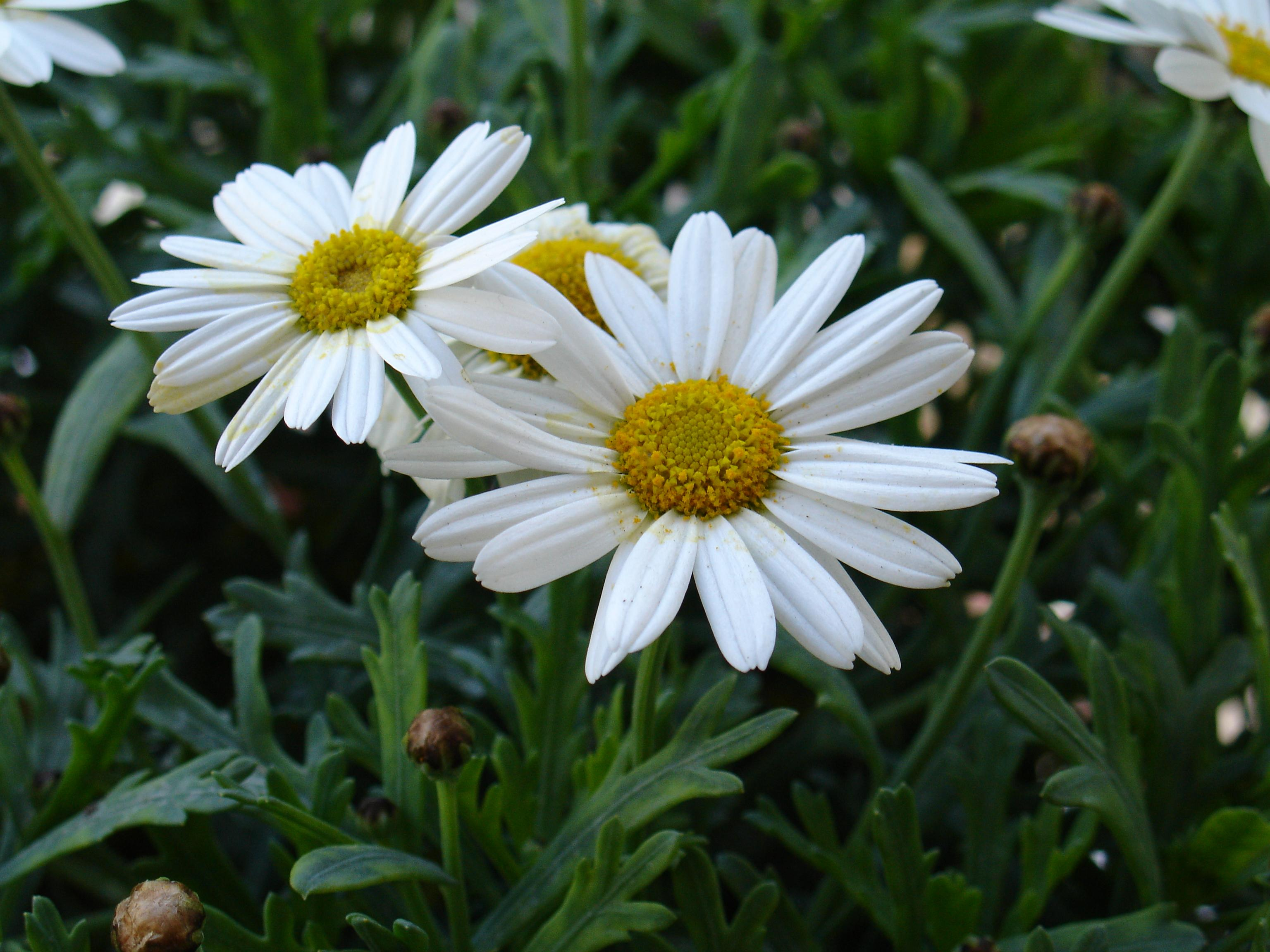 Leucanthemum maximum